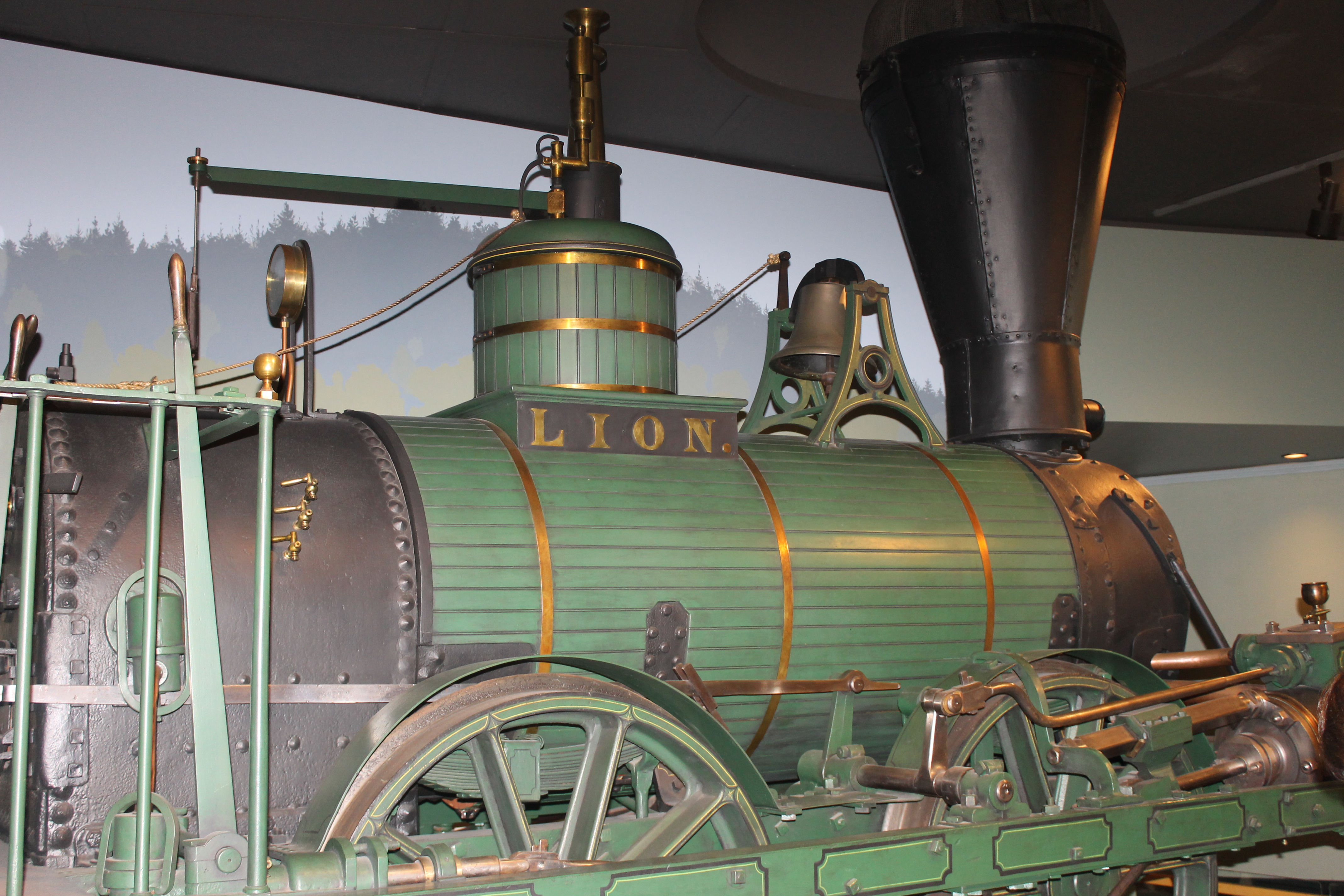 I took photo with Canon camera of The Lion locomotive at Maine State Museum in Augusta.